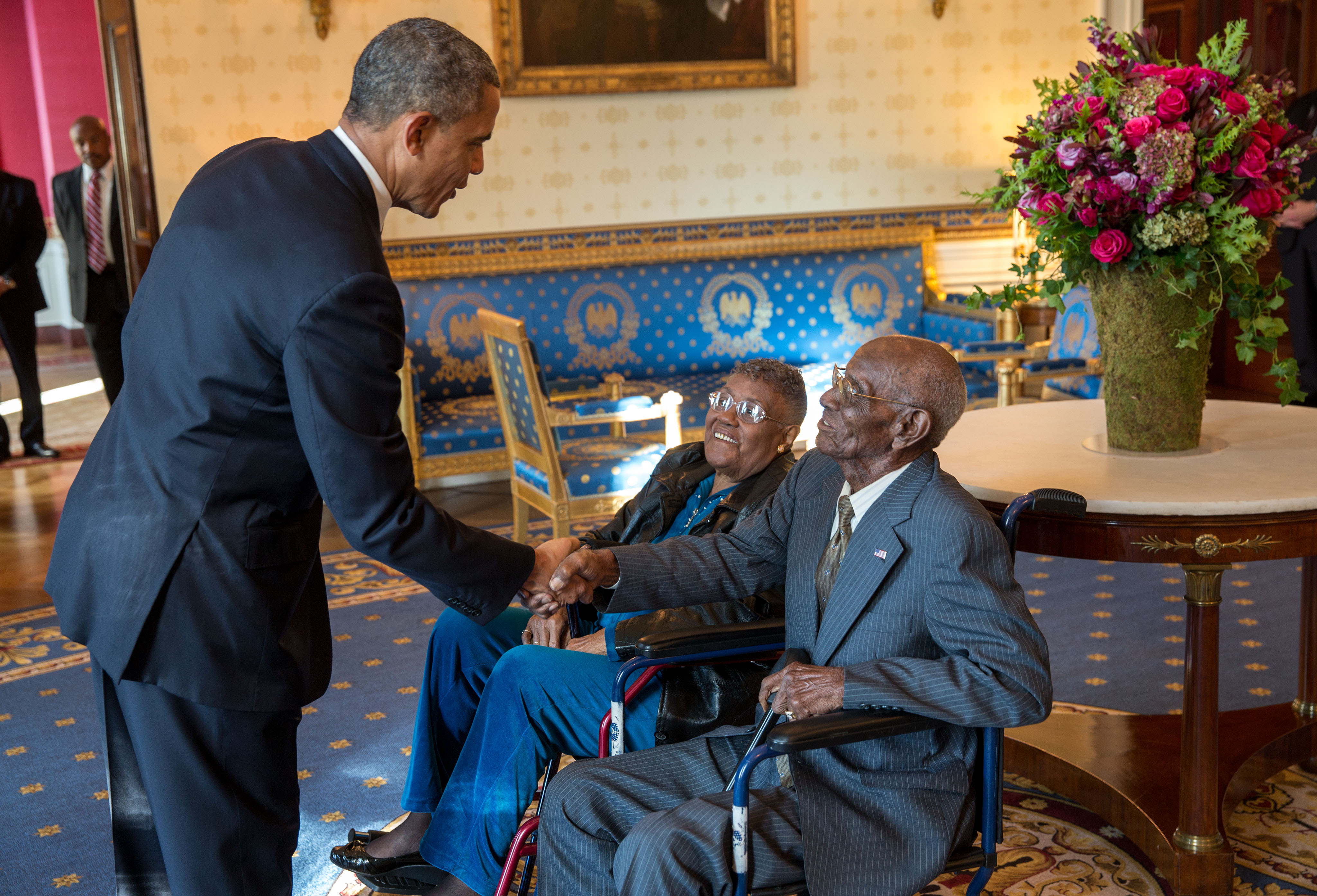 President Barack Obama greets Richard Overton, with Earlene Love-Karo, in the Blue Room of the White House, Nov. 11, 2013. Mr. Overton, 107 years old and the oldest living World War II veteran, attended the Veteran's Day Breakfast at the White House.